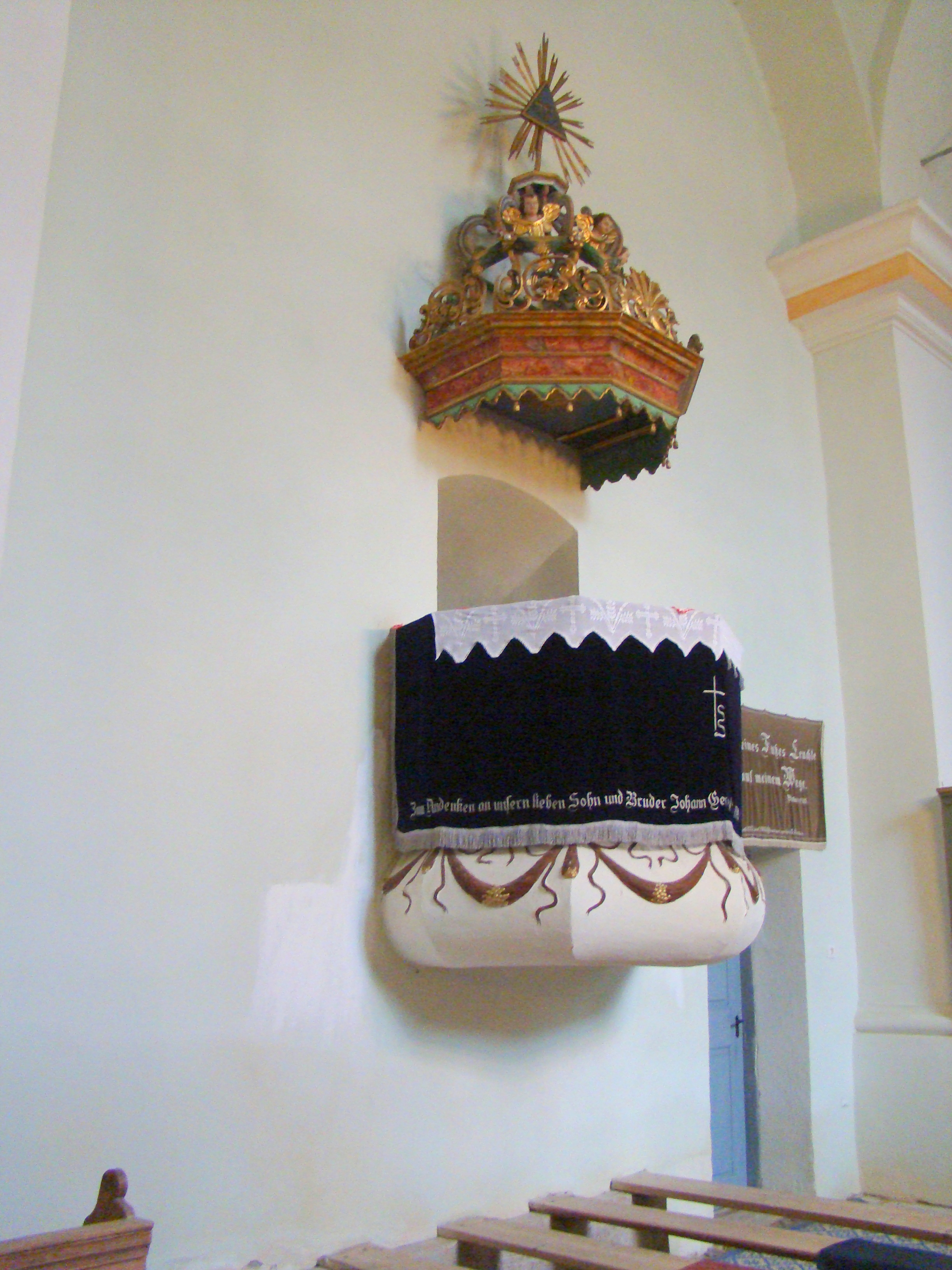 Fortified church in Ticușu Vechi, Brașov County, Romania